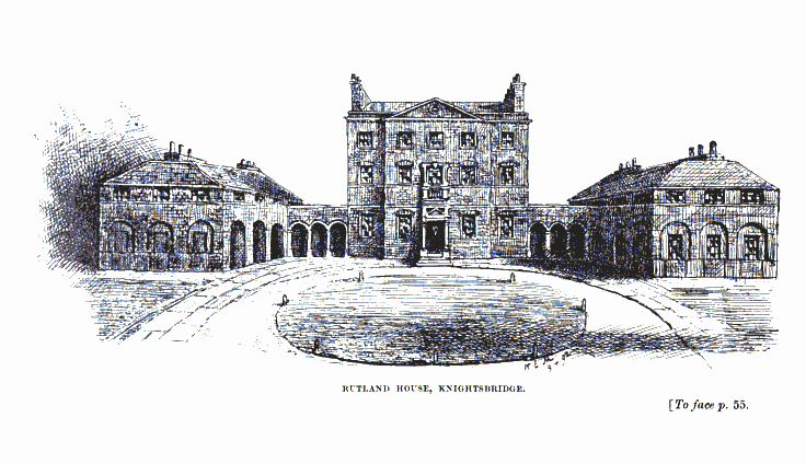 Rutland House, Knightsbridge, seat of the Dukes of Rutland in London. The red-brick Georgian residence in Knightsbridge sat on seven acres of ground. The location of the house, demolished in the 1850s, is marked by today's Rutland Gate. The property on which the mansion sat was a leasehold property only, and was never acquired by the Dukes of Rutland. Says Walter Evelyn Manners: "Had Rutland House remained to this day it would have served as an interesting memorial of times by no means remote when the Knightsbridge Road was at intervals so deep in mud as to be all but impassable, and so dangerous that it was patrolled by cavalry at night. Belated foot-passengers bound for it, or the village of Kensington beyond, used to pause at Hyde Park Corner until a sufficient number was collected to brave the lonely stretch of thief-infested road, a bell being rung to announce the starting of the party should any further loiterers be desirous of a convoy." From 'Some Account of the Military, Political and Social Life of the Right Hon. John Manners, Marquis of Granby," by Walter Evelyn Manners, Macmillan and Co., Limited, London, New York, 1899.